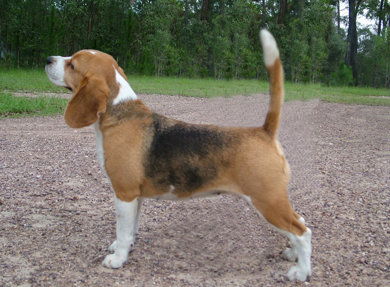 Orienta Kennels